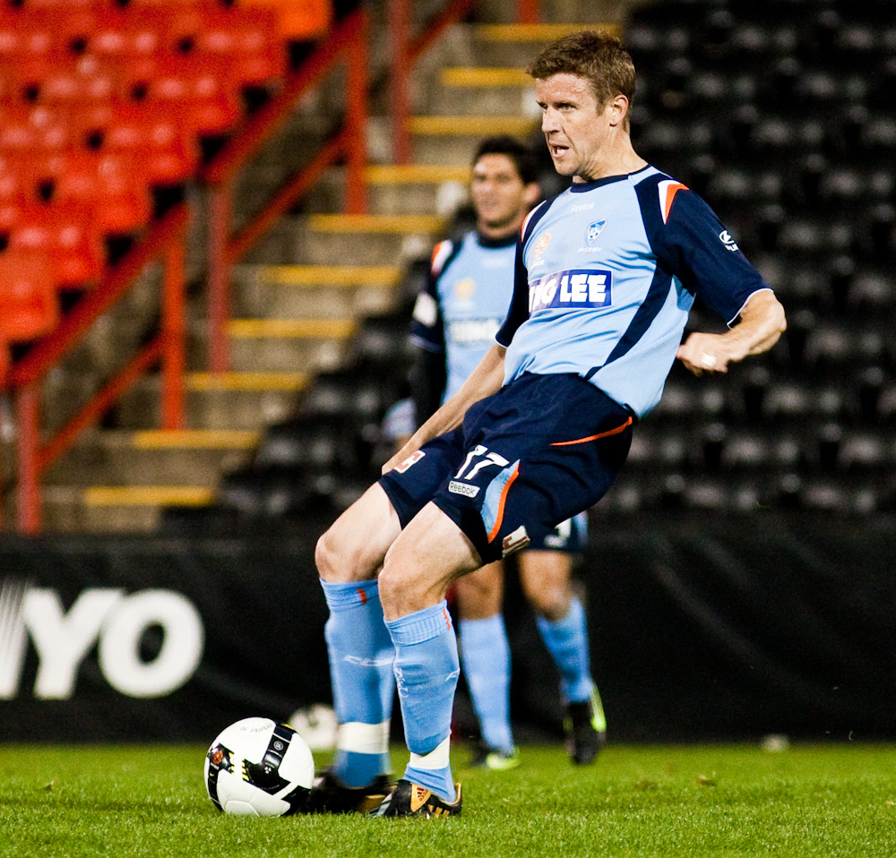 Chris Innes playing in a trial game for Sydney FC versus Penrith Nepean United.